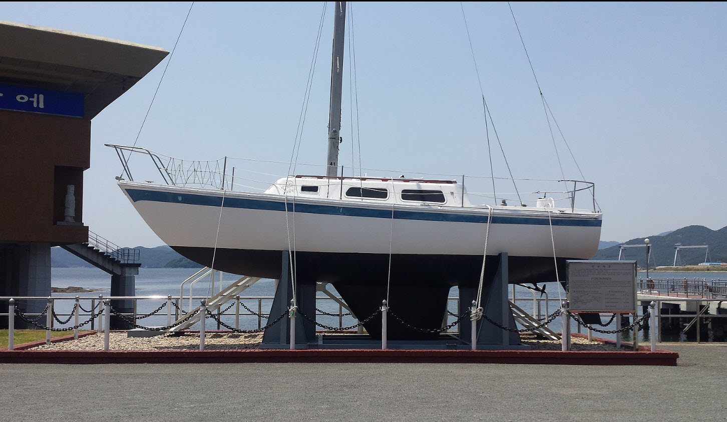 Sailboat on which Kang Dong-suk sailed acrossed the Pacific